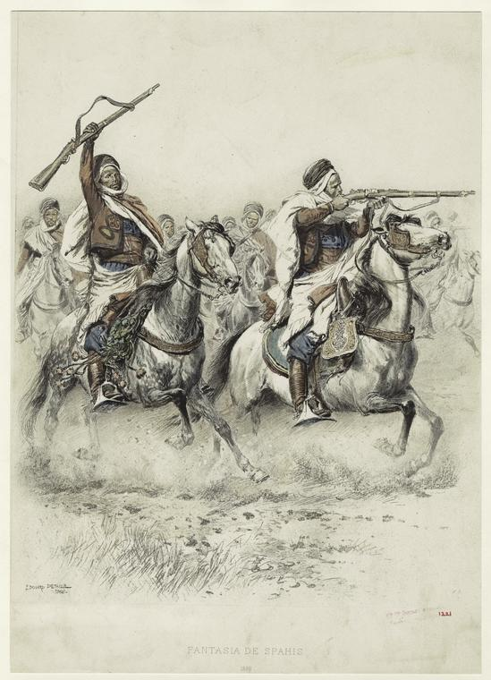 Édouard Detaille painting : Fantasia de Spahis (1886)